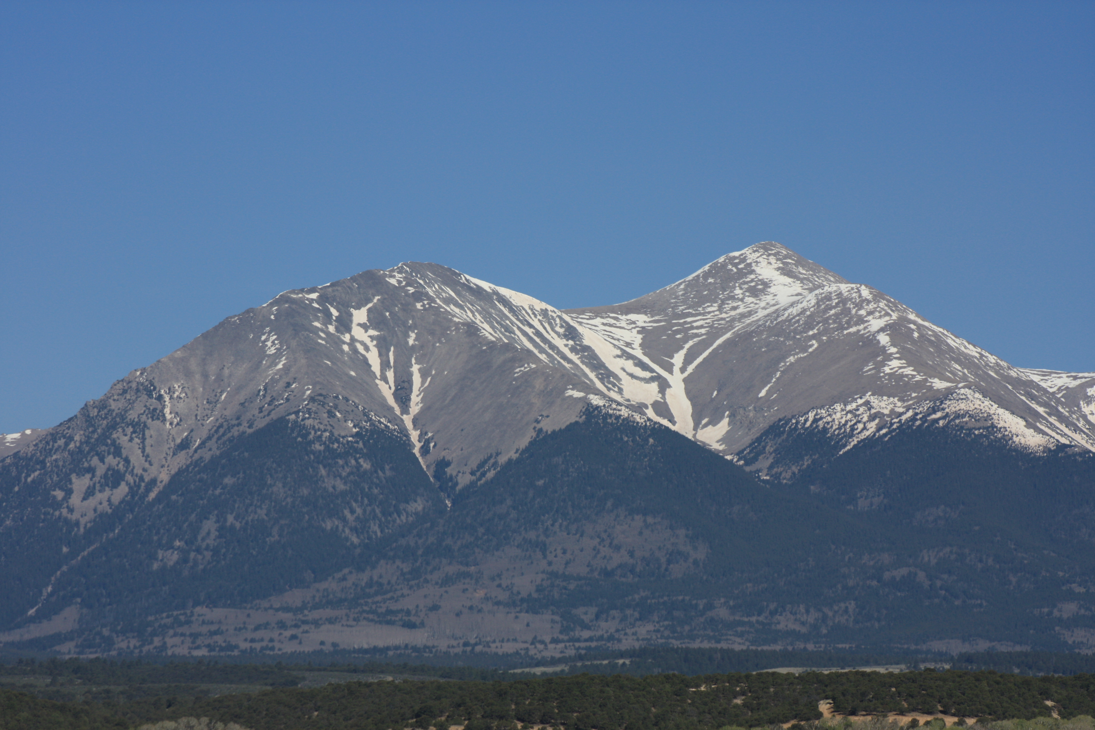 Taken from along U.S. 285, just north of Poncha Springs. IMG_2187